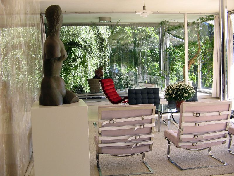 The front room of the Villa Tugendhat by Mies van der Rohe in Brno, Czech Republic.